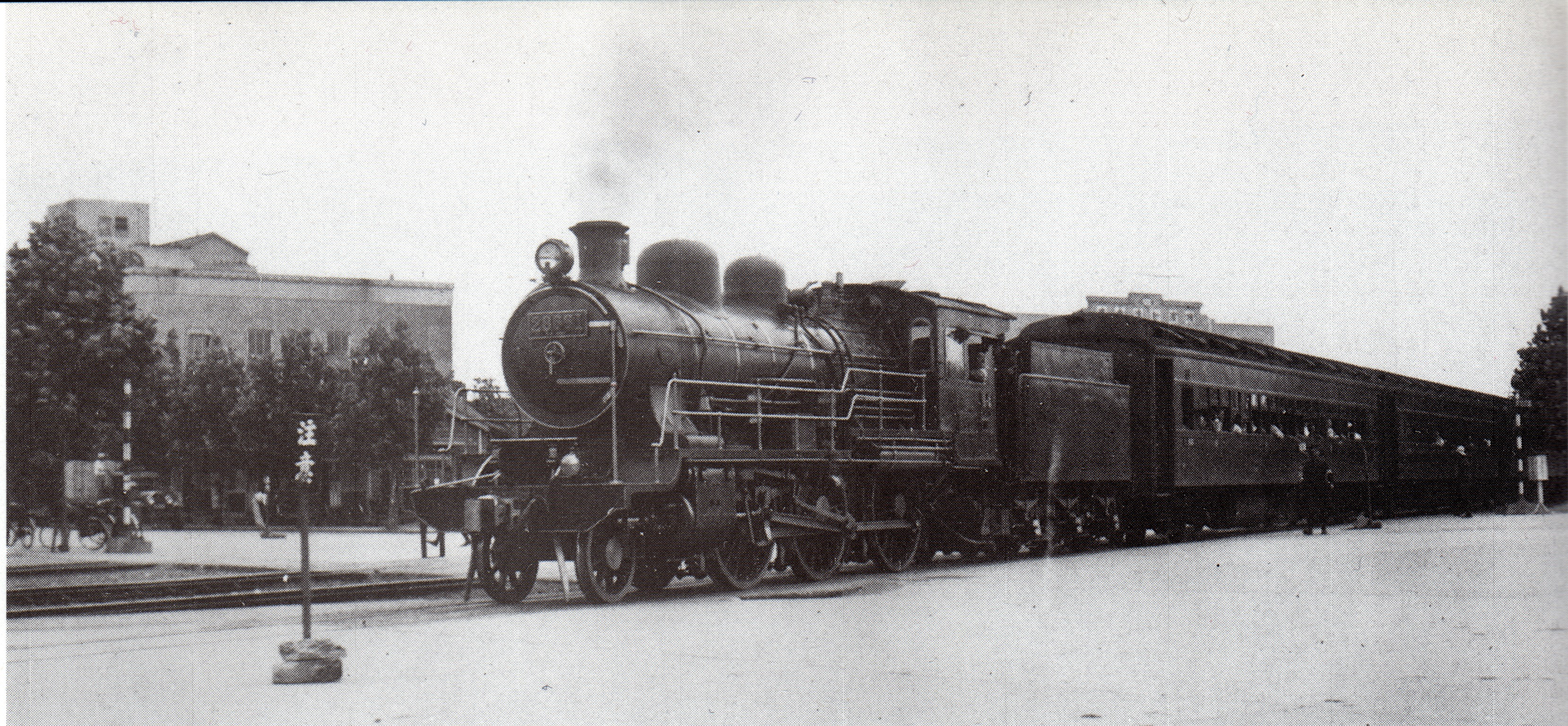 Boat train departing from Yokohama port for Tokyo. The hauling loco is 28661 of type 8620.